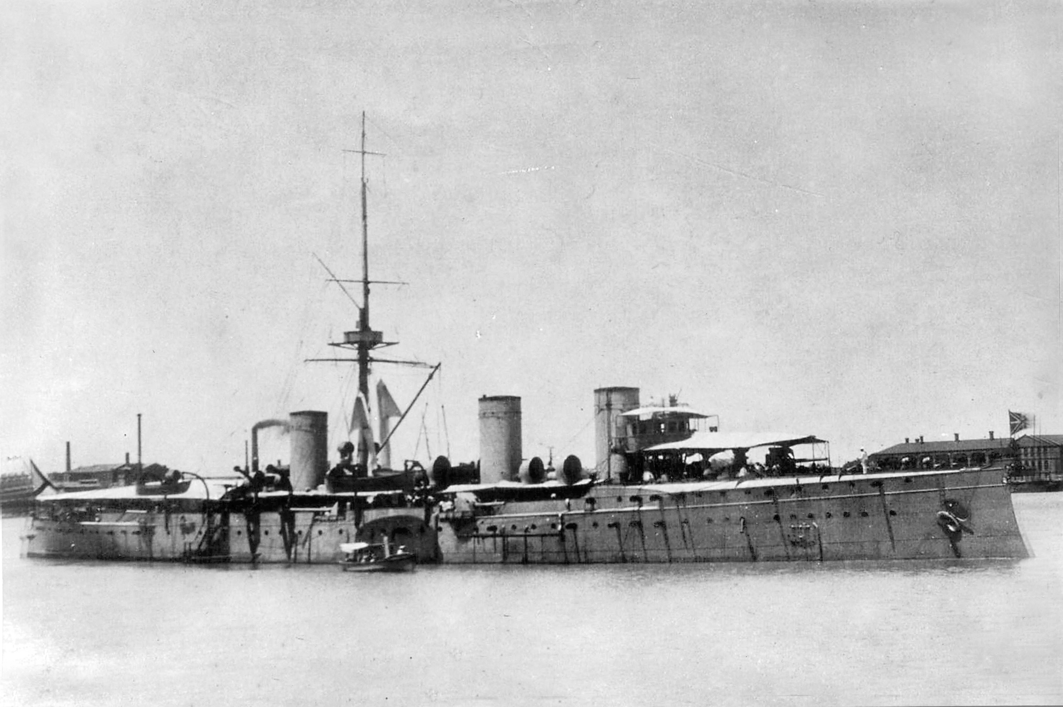 Imperial Russian cruiser Zhemchug after 1909.